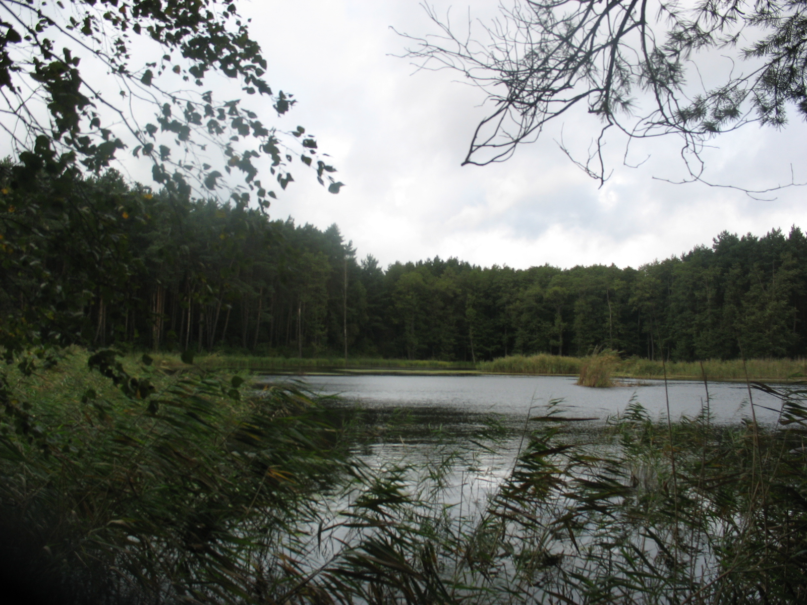 North pond beside the Campus Morasko.